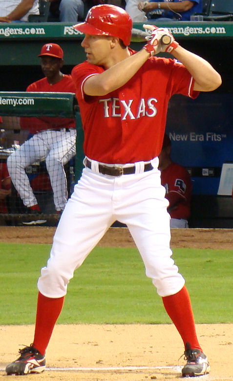 David Murphy, Texas Rangers outfielder.